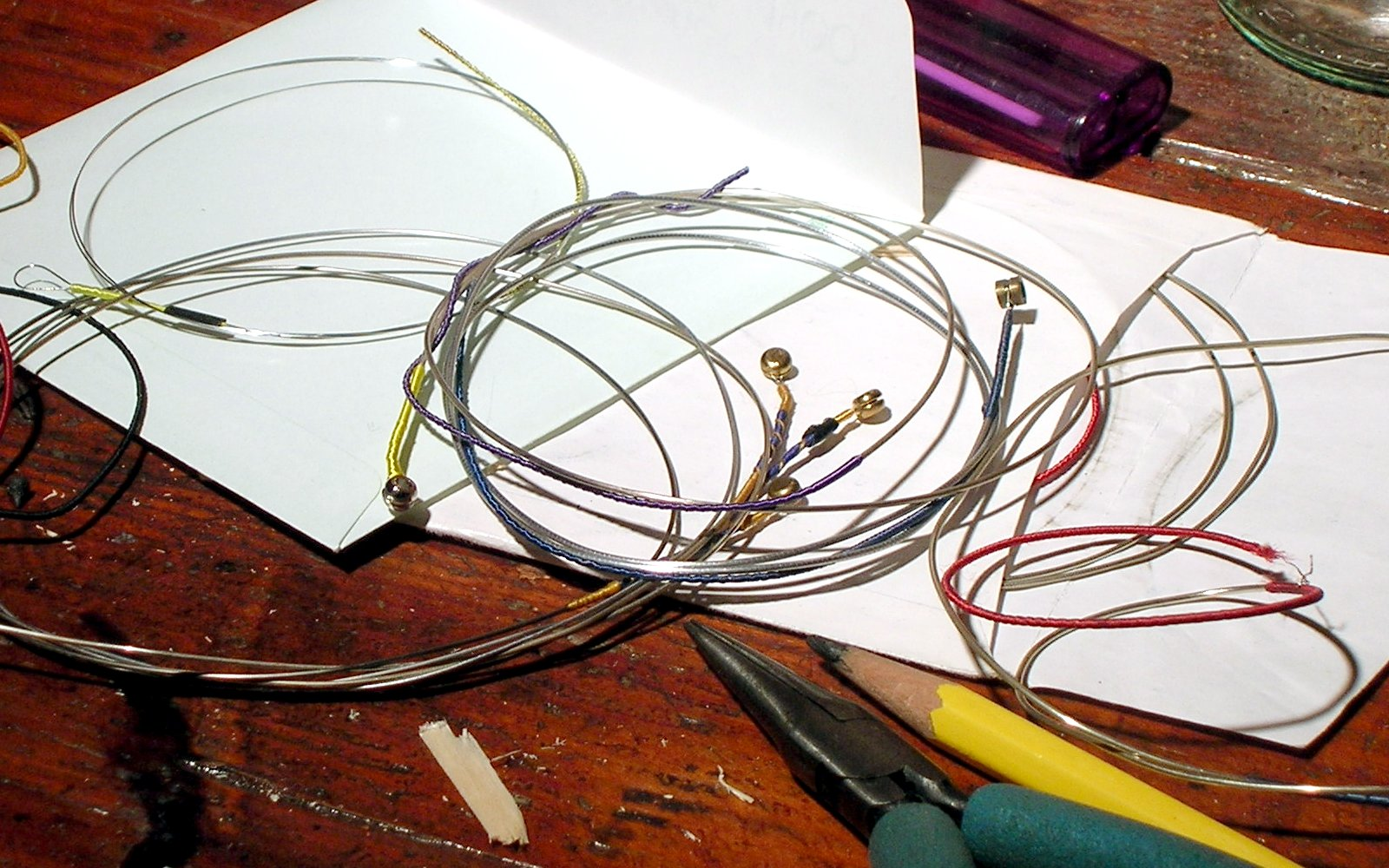 violin strings, used and new, coiled on a workbench